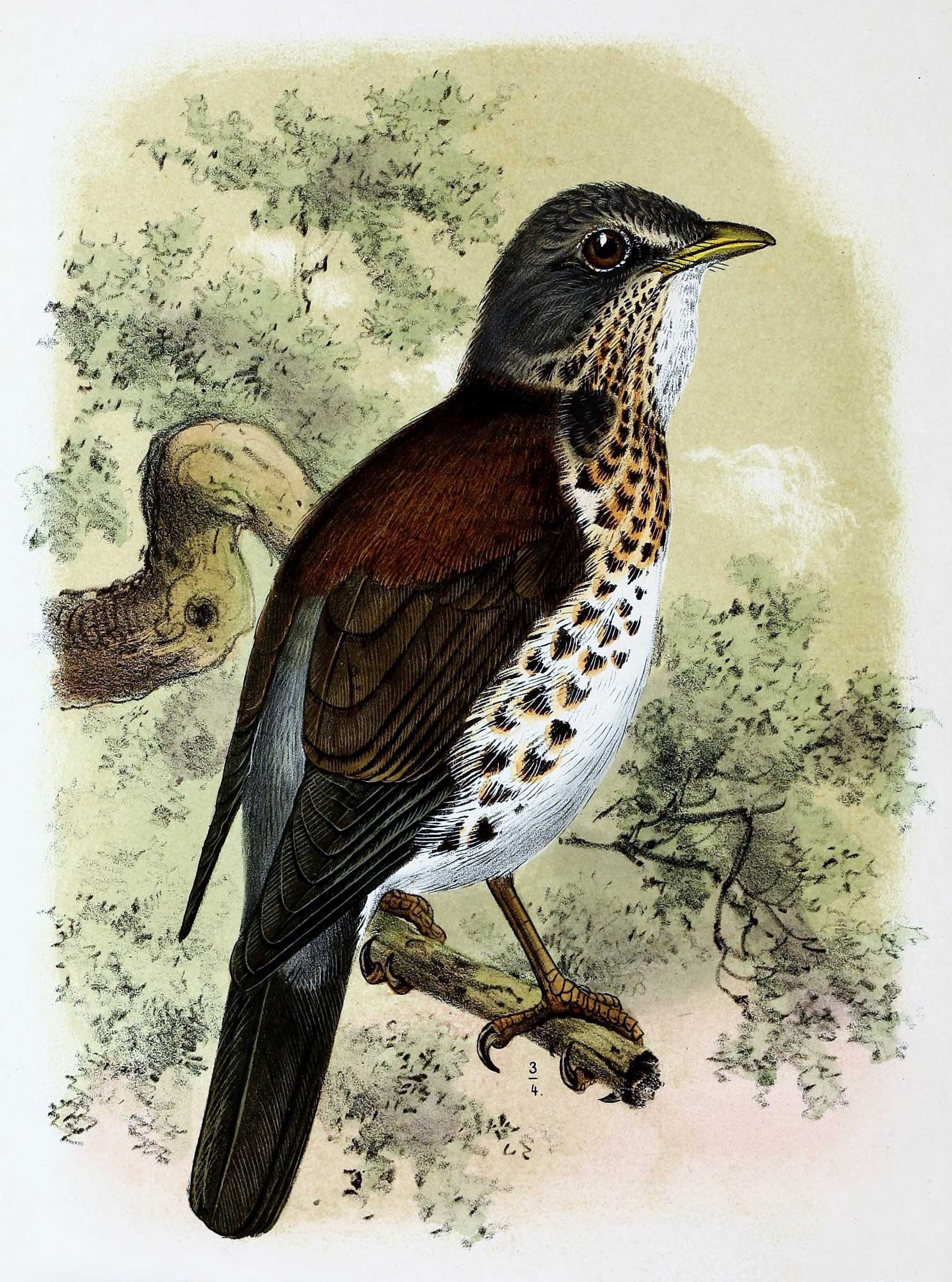 « Turdus pilaris » = Turdus pilaris (Fieldfare)